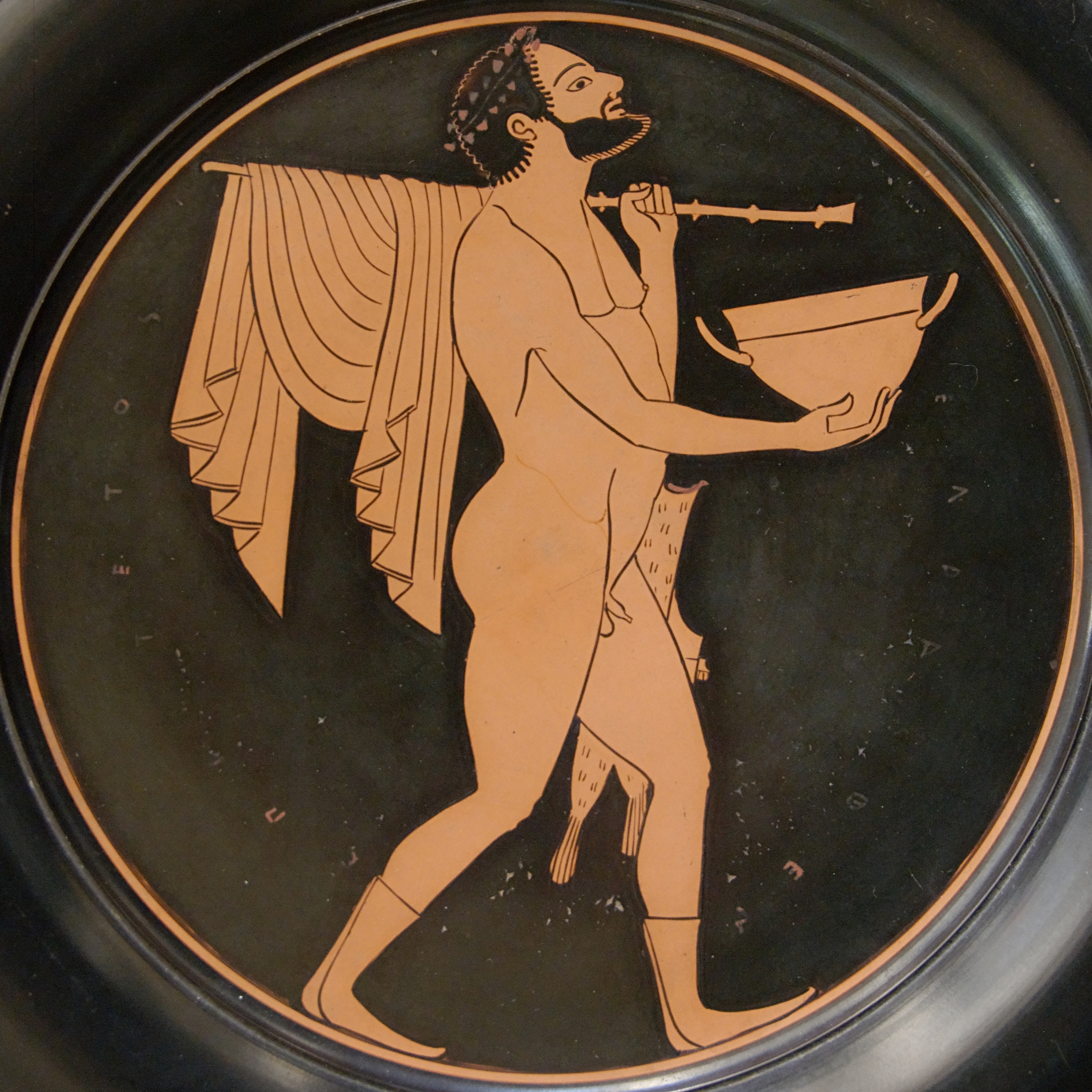 Bearded komast with a skyphos, a staff and pipes case; Tondo of an Attic black-figure plate. From Vulci.